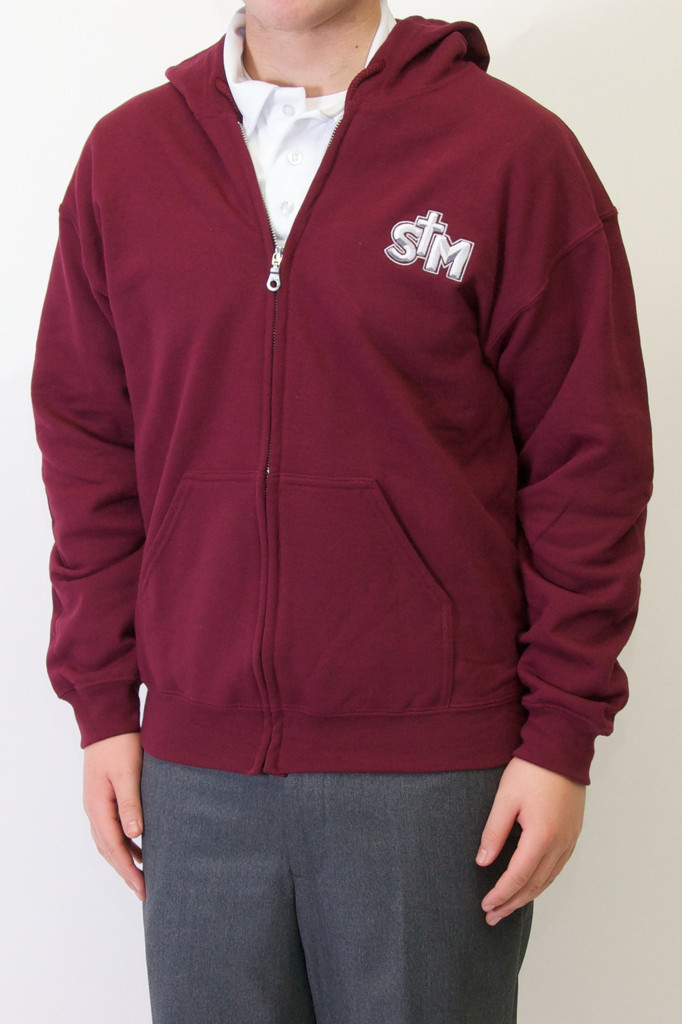 uniform